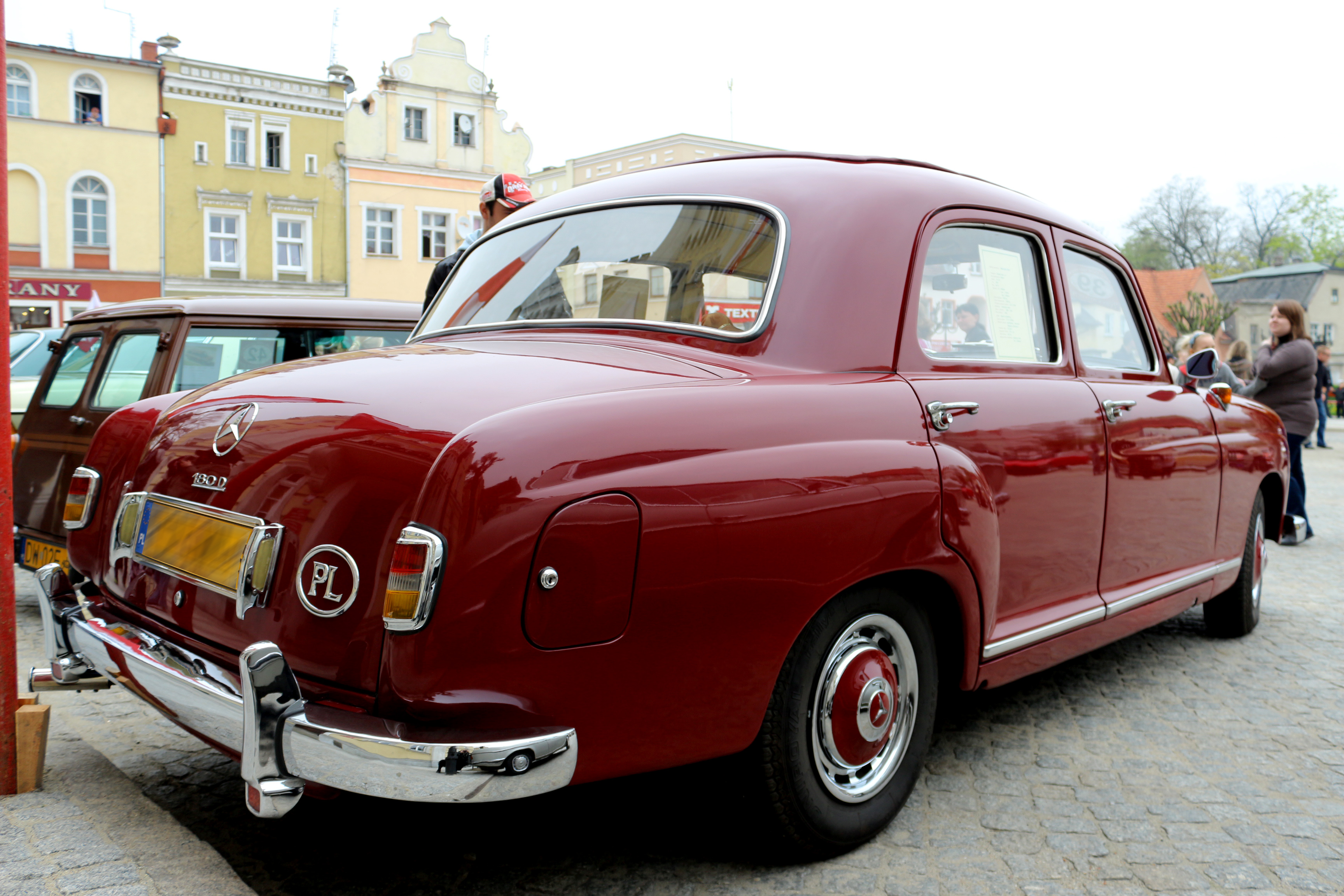 Mercedes Benz W120 180D 1954